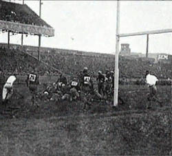 A Nebraska football game during the 1920 season.